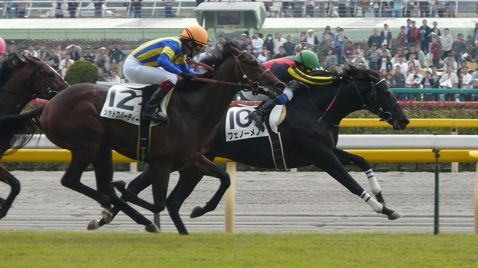 Fenomeno20111030(2)